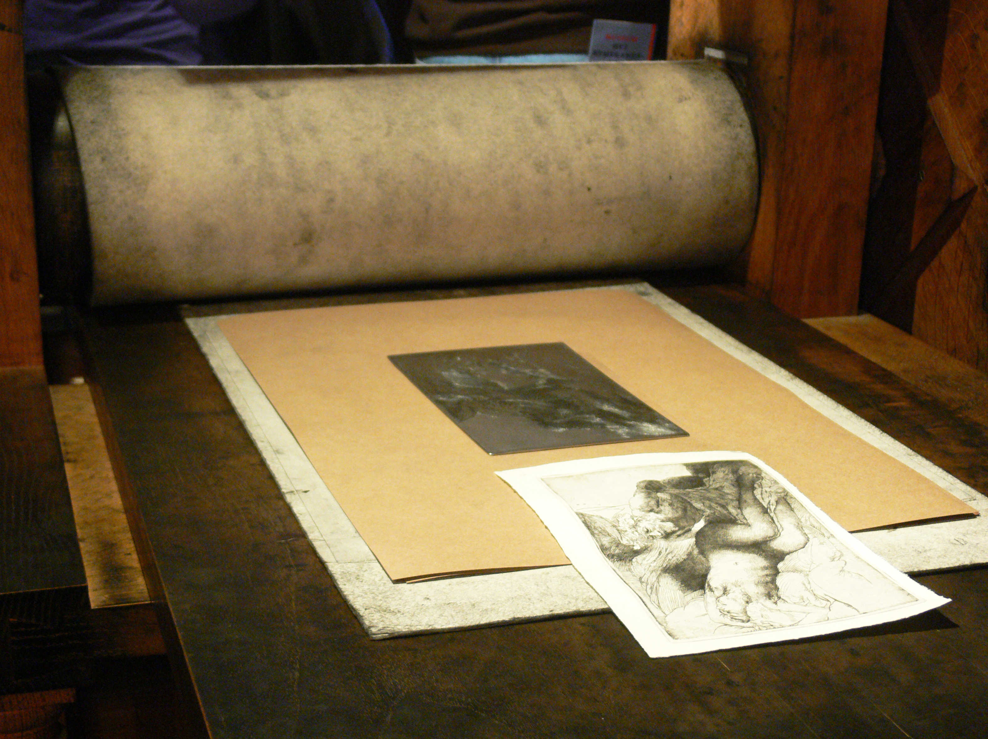 Rembrandt House Museum, printing studio